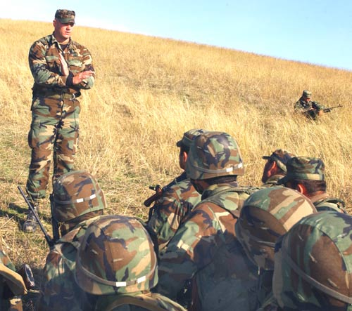 U.S. Army Sgt. 1st Class Jeff Baughman, 10th Special Forces Group, Fort Carson, Colo., instructs Georgian army soldiers on the dangers of conducting live-fire ambushes and maintaining muzzle control. In the third phase of the Georgia Train and Equip Program, the Georgian army is learning airmobile operations, basic and advanced rifle marksmanship, and tactical movement. U.S. Air Force Photo by Staff Sgt. Edward D. Holzapfel